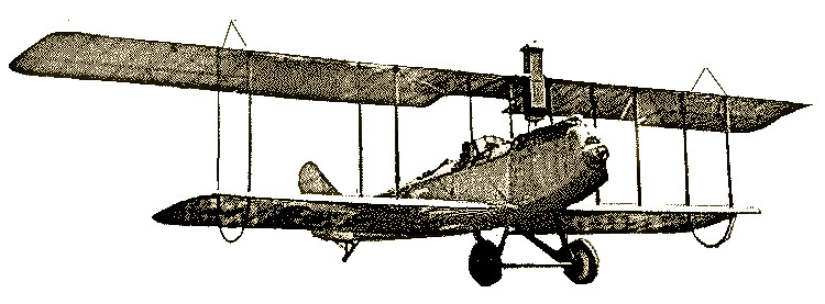 Lincoln Standard biplane illustration